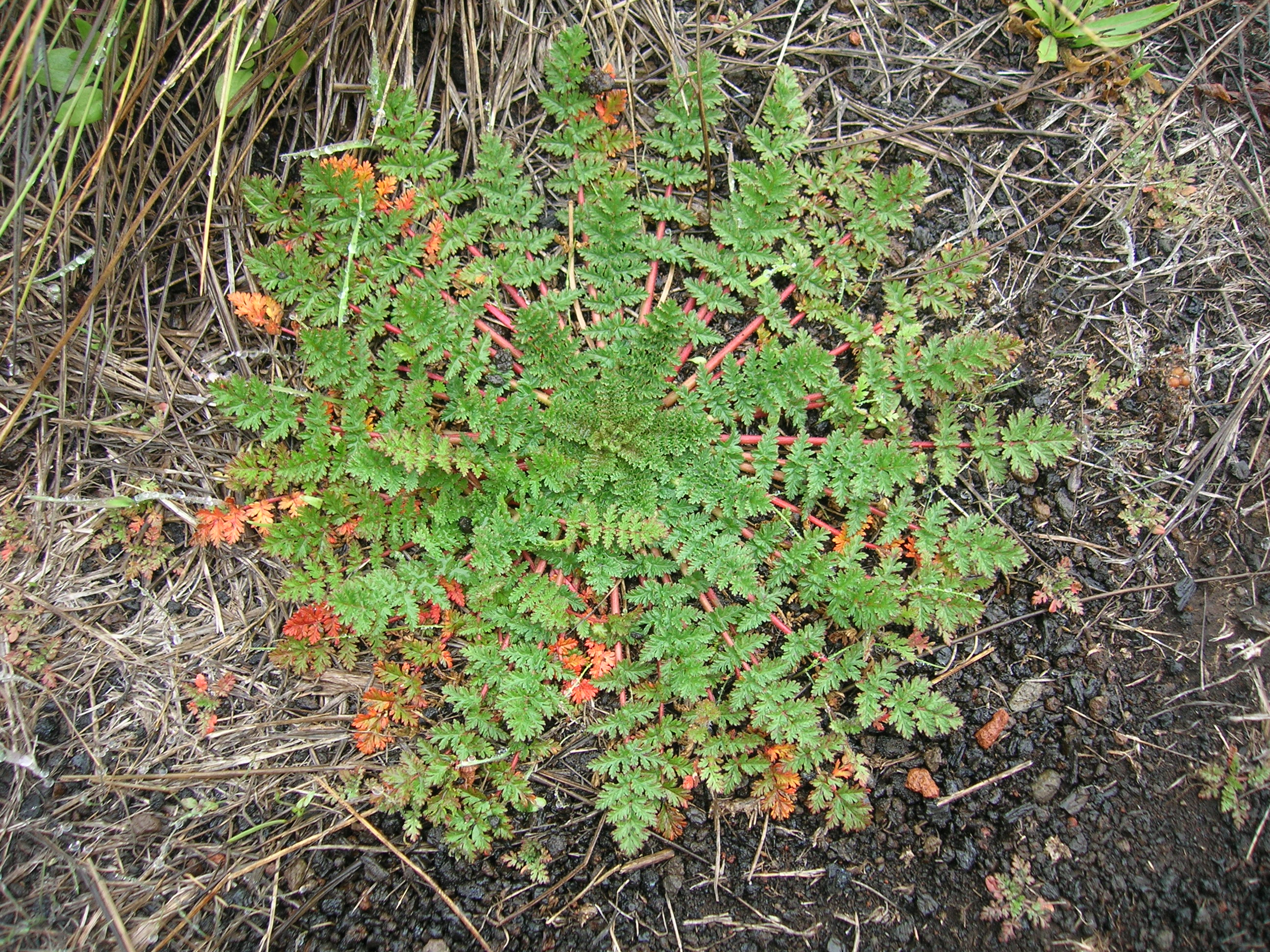 Erodium cicutarium (habit). Location: Maui, Kapalaoa Haleakala National Park